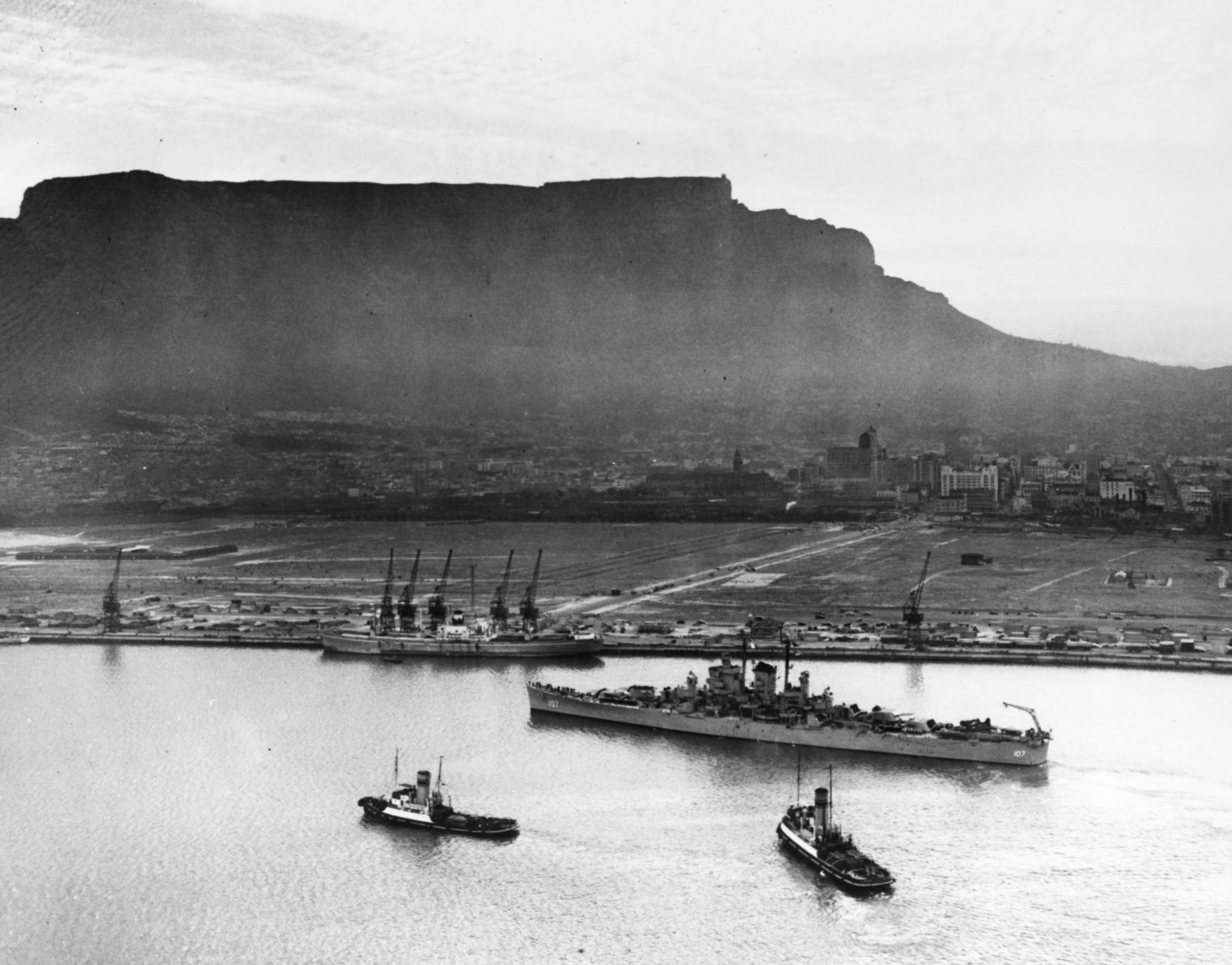 The U.S. Navy light cruiser USS Huntington (CL-107) approaching Berth M, Duncan Docks, at Cape Town, South Africa, in the late afternoon of 15 October 1948. Table Mountain is in the distance.